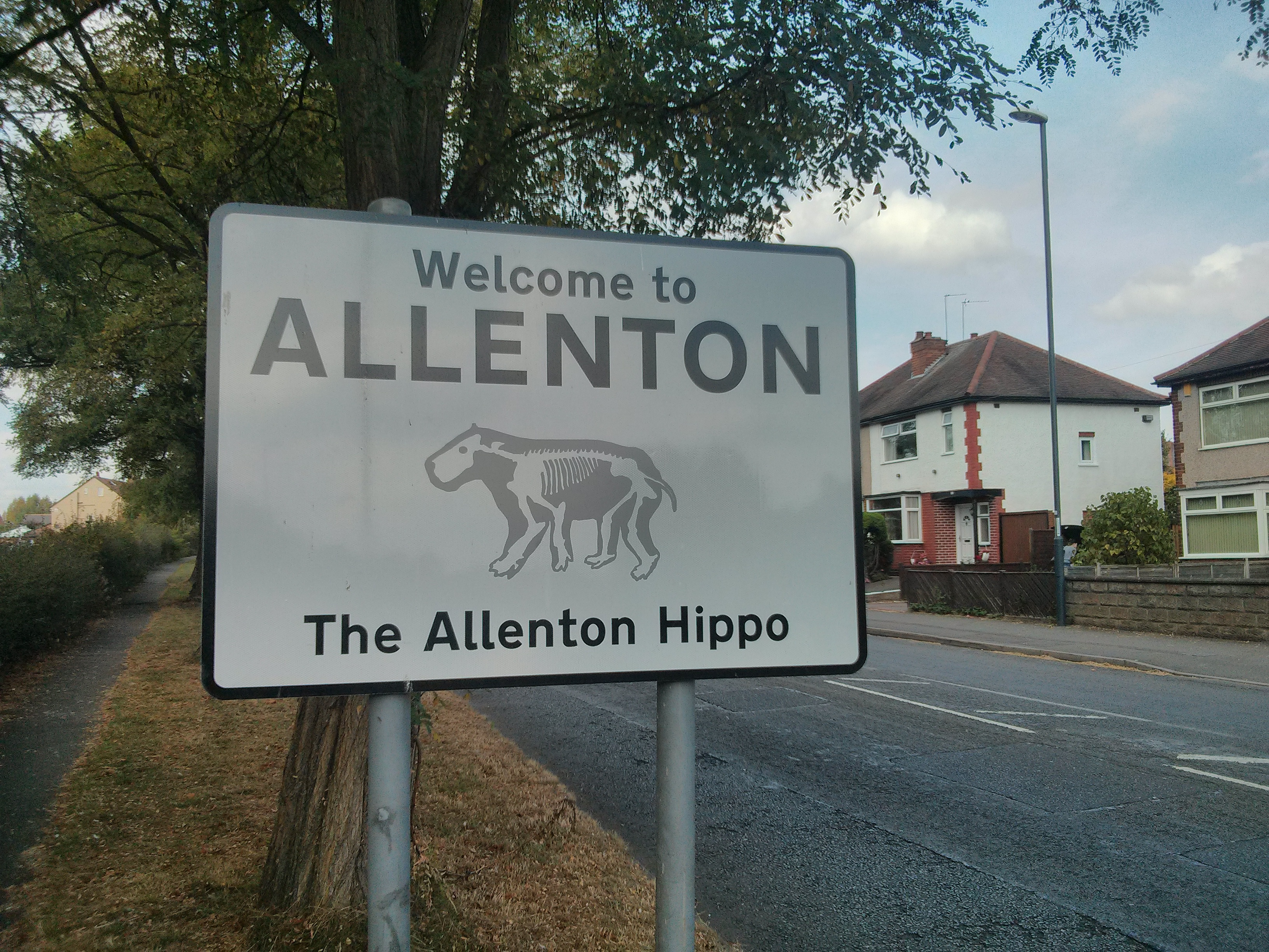 Allentown hippo sign